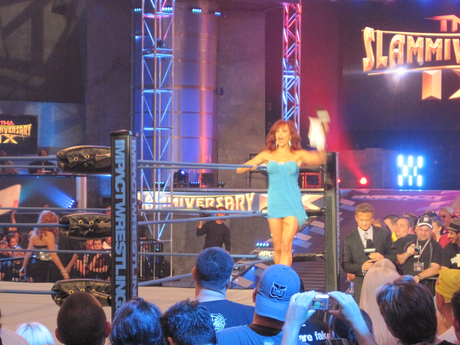 Sunday, June 12, 2011. Universal Orlando